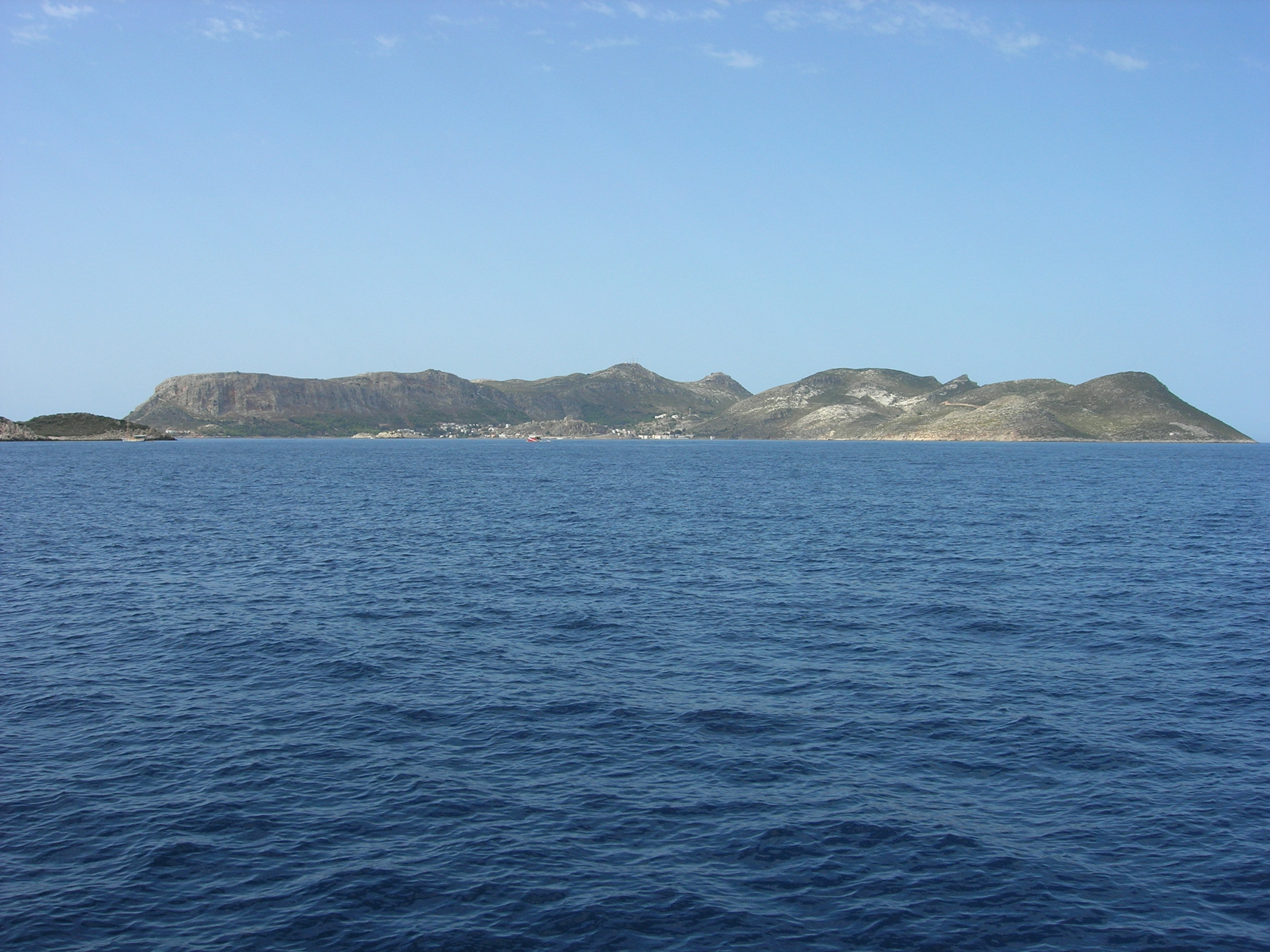 The island of Kastellorizo seen from the town of Kas